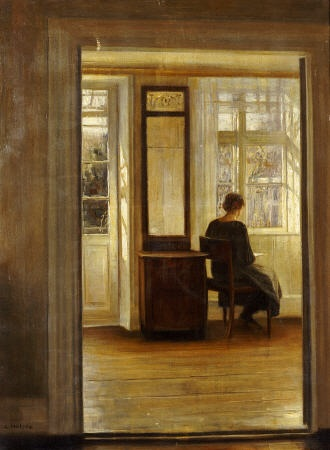 a-lady-in-an-interior